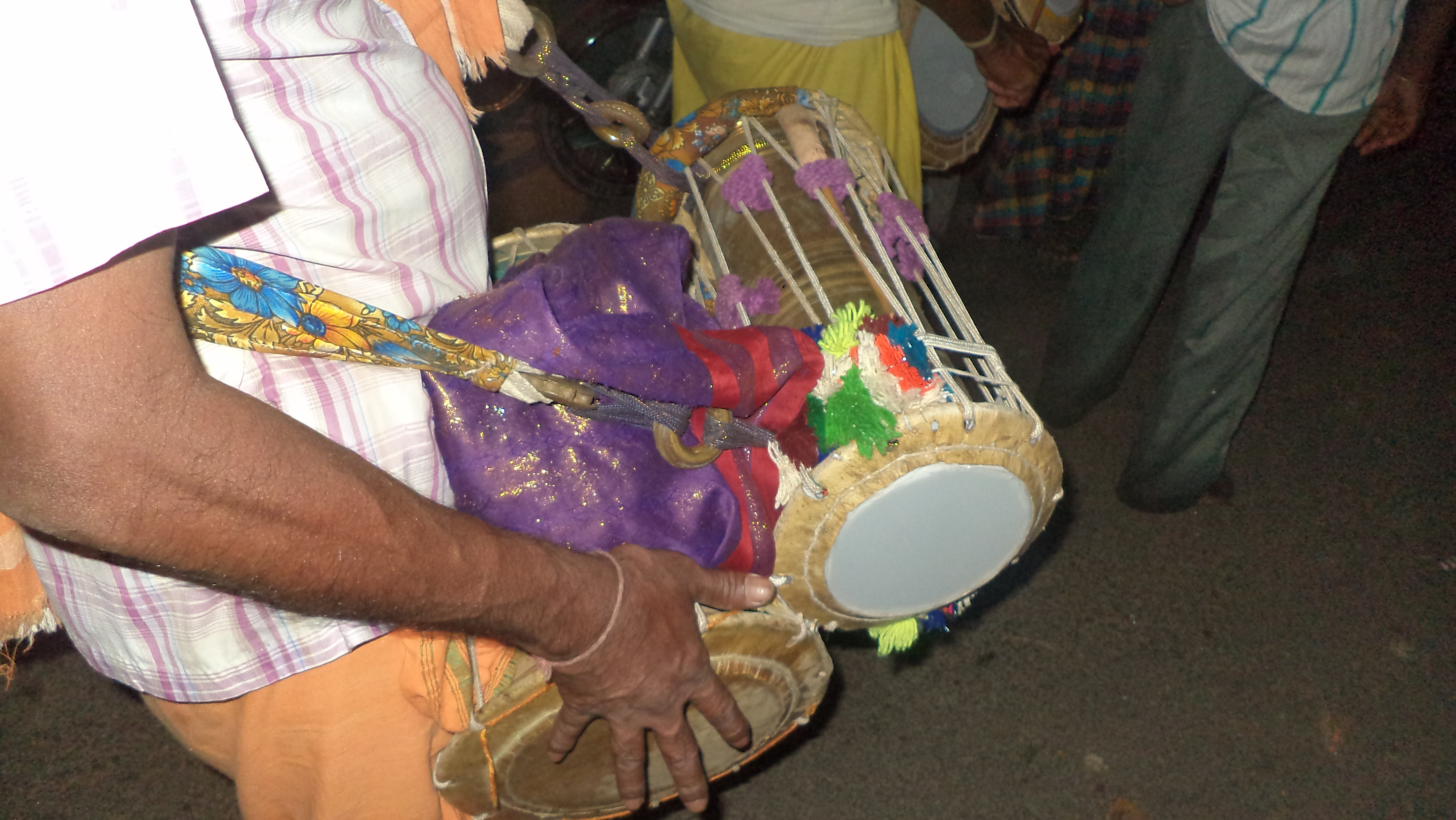 Pambai. A kind of four headed drum, played with a stick.